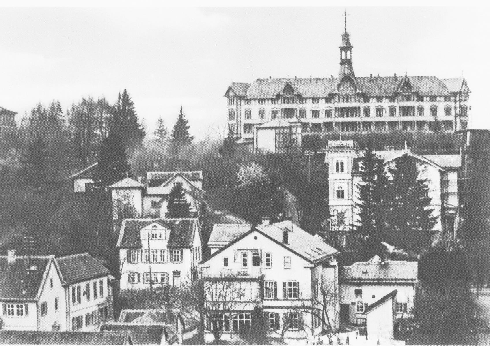 Former Kurhaus in Friedrichroda in Thuringia